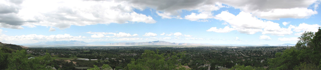 Davis County, Utah seen from Fernwood Park in Layton, Utah, United States.